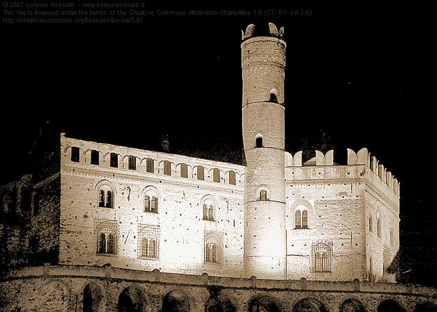 The Castle of Villar Dora by night, Piemonte, Italy